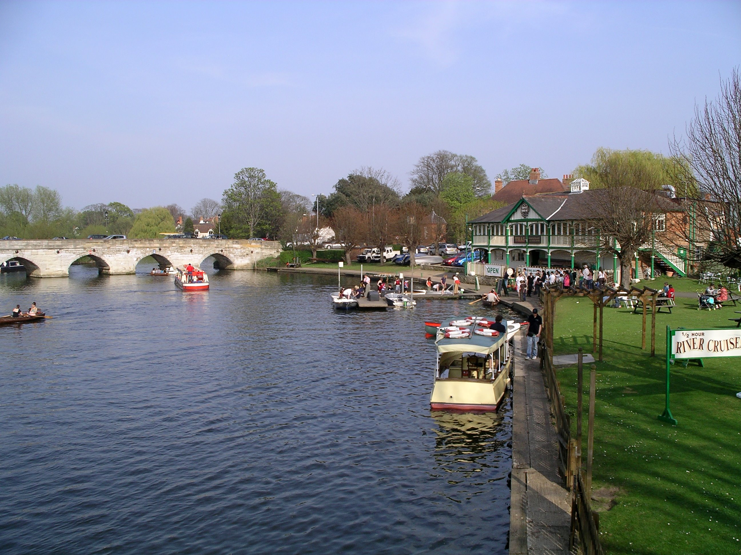 Photo taken by me on 14 April 2007 of the River Avon in Stratford-upon-Avon, Warwickshire, England. A sunny day.